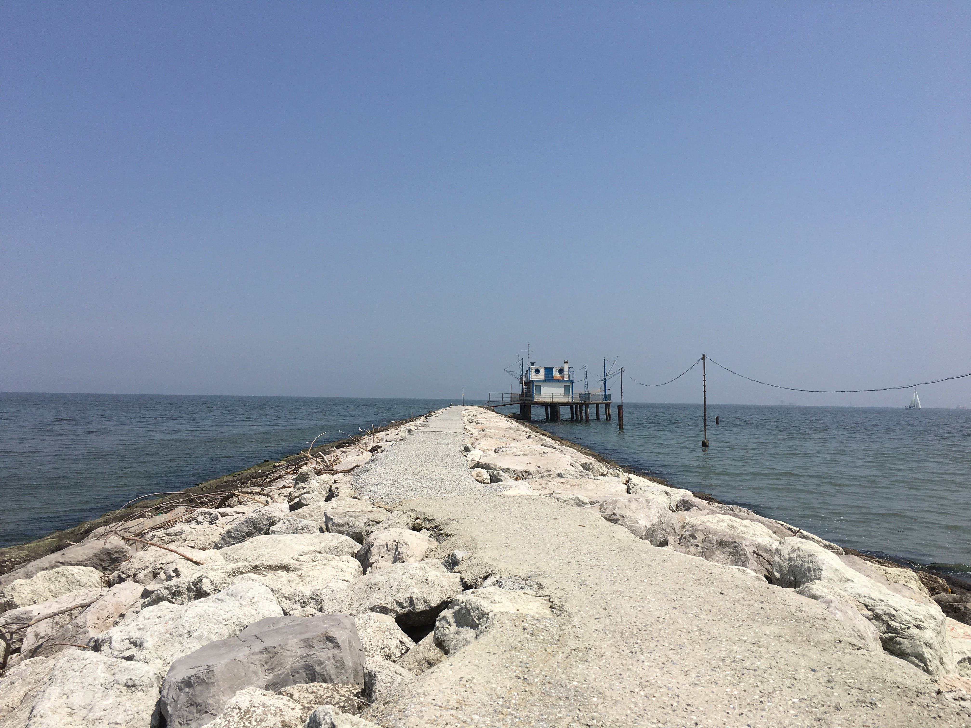 marina romea (italy)